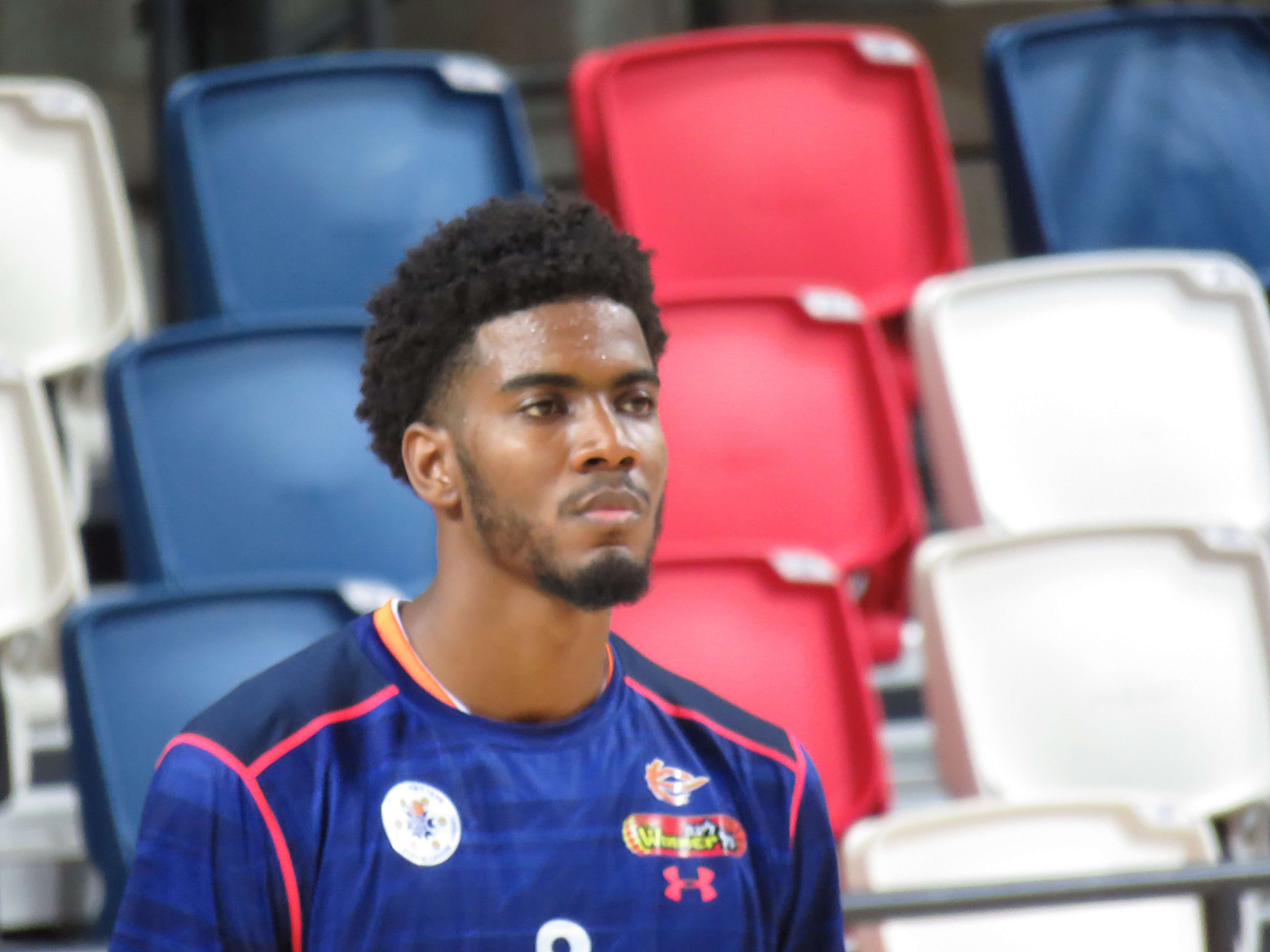 Maccabi Rishon LeZion vs. Maccabi Tel Aviv B.C., 26 September, 2015